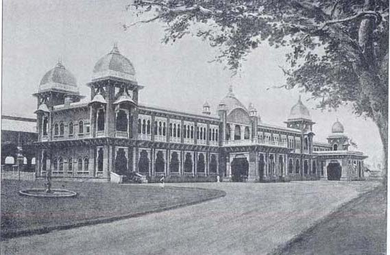 Photograph of the Chennai Egmore station